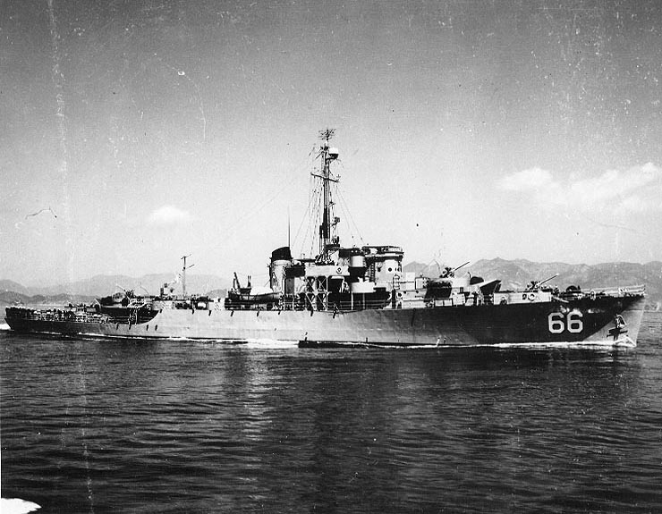 Photo #: NH 97331 Imchin (Korean Frigate, formerly USS Sausalito, PF-4) Underway, circa 1960. Official U.S. Navy Photograph, from the collections of the Naval Historical Center.